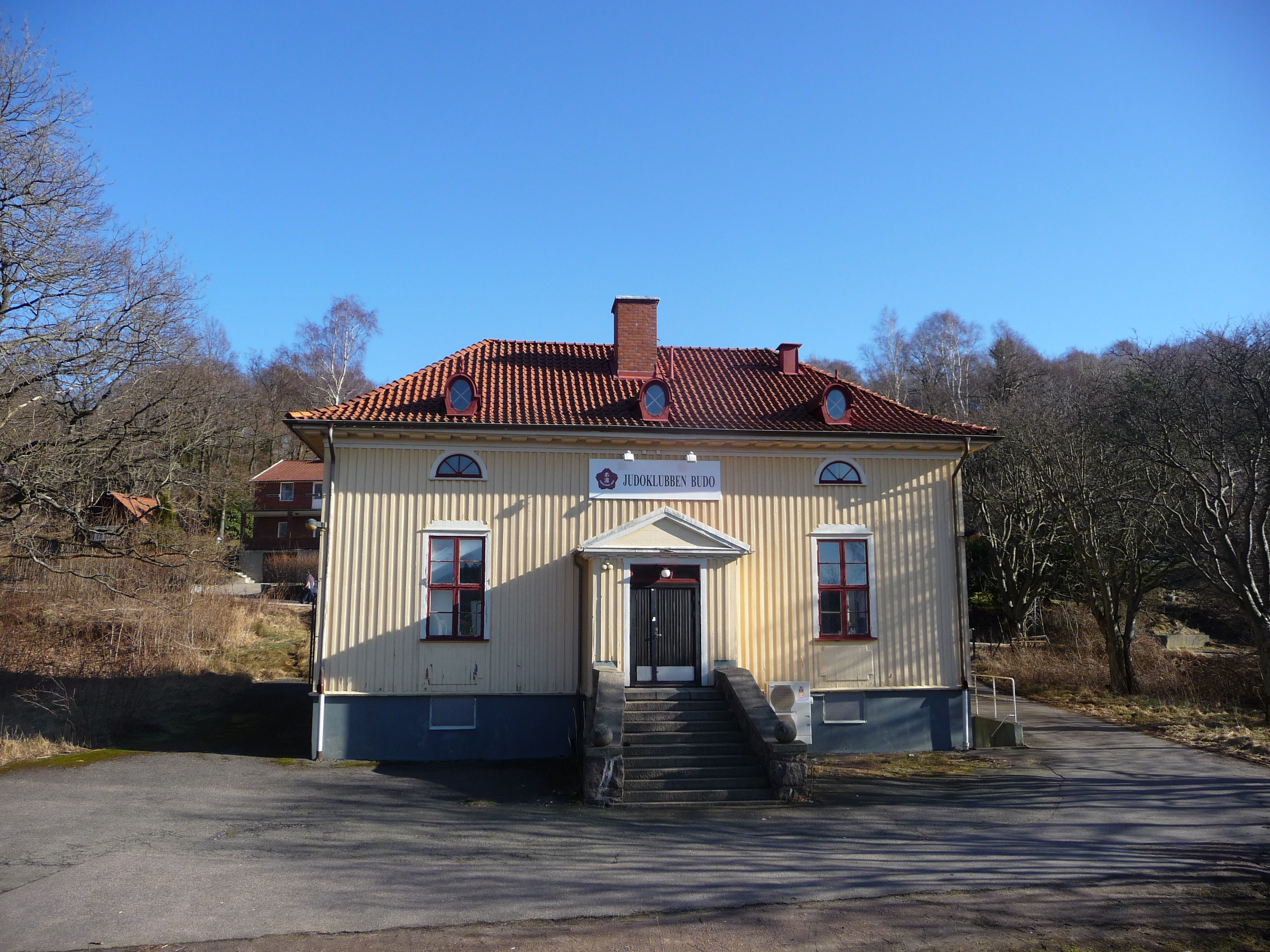 The clubhouse of Judoklubben Budo.